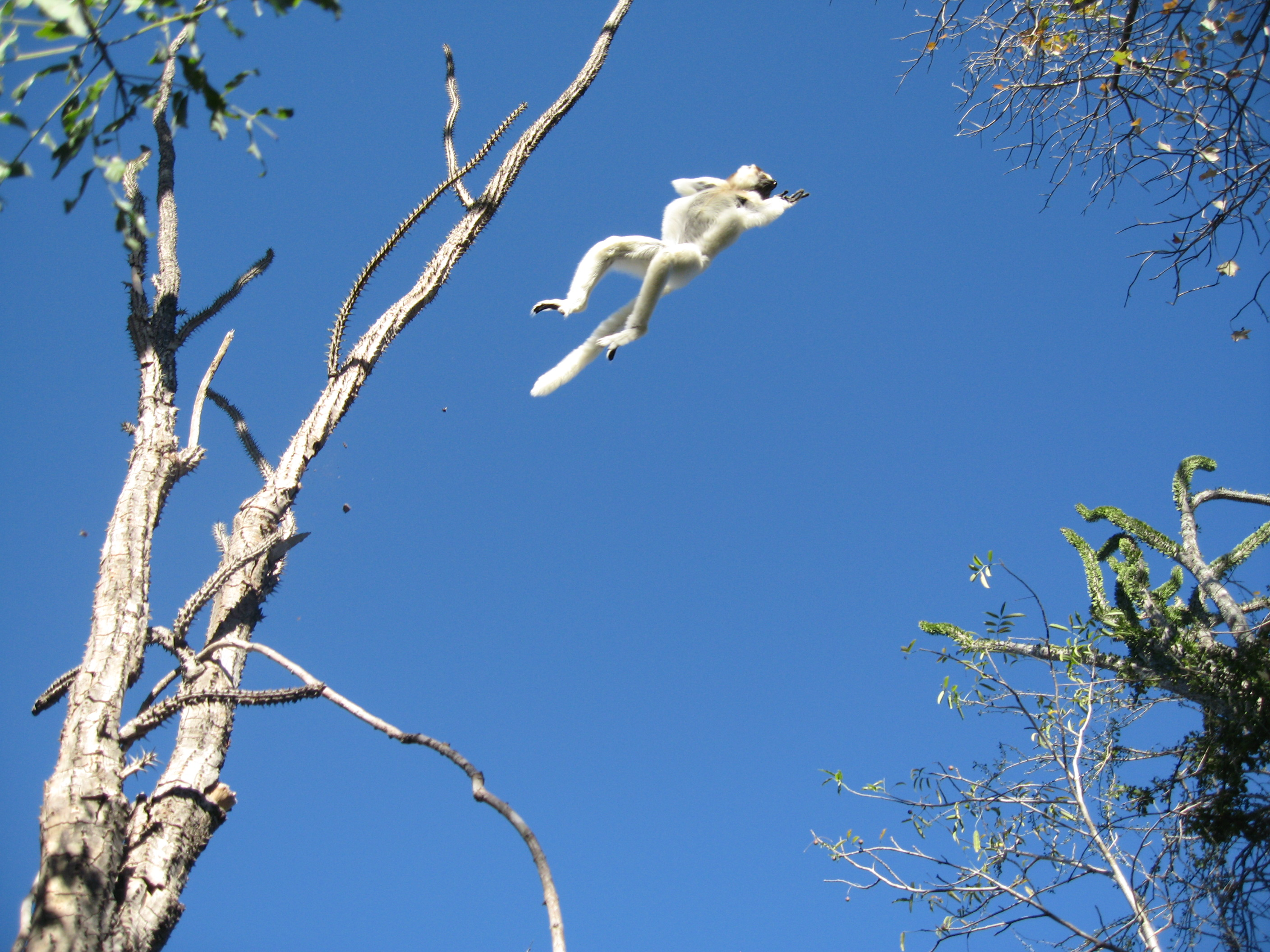 Wild Sifaka, Verreaux's Sifaka (Propithecus verreauxi) leaping from tree to tree. Ifotaka, Southern Madagascar.